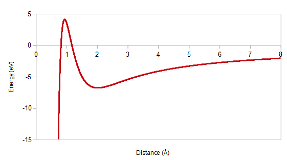 Example Coulomb-Buckingham potential of interaction between oppositely charged ions.